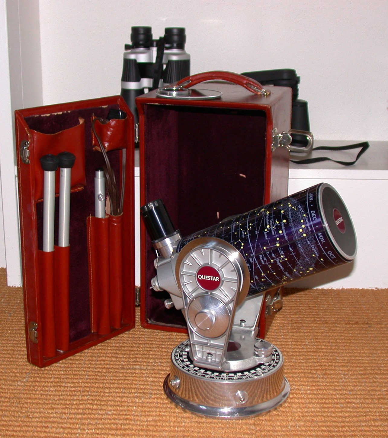 Questar 3 1/2""